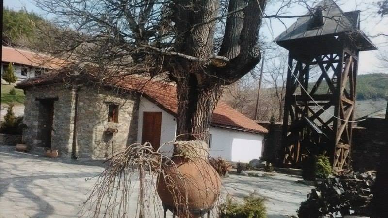 Manastir